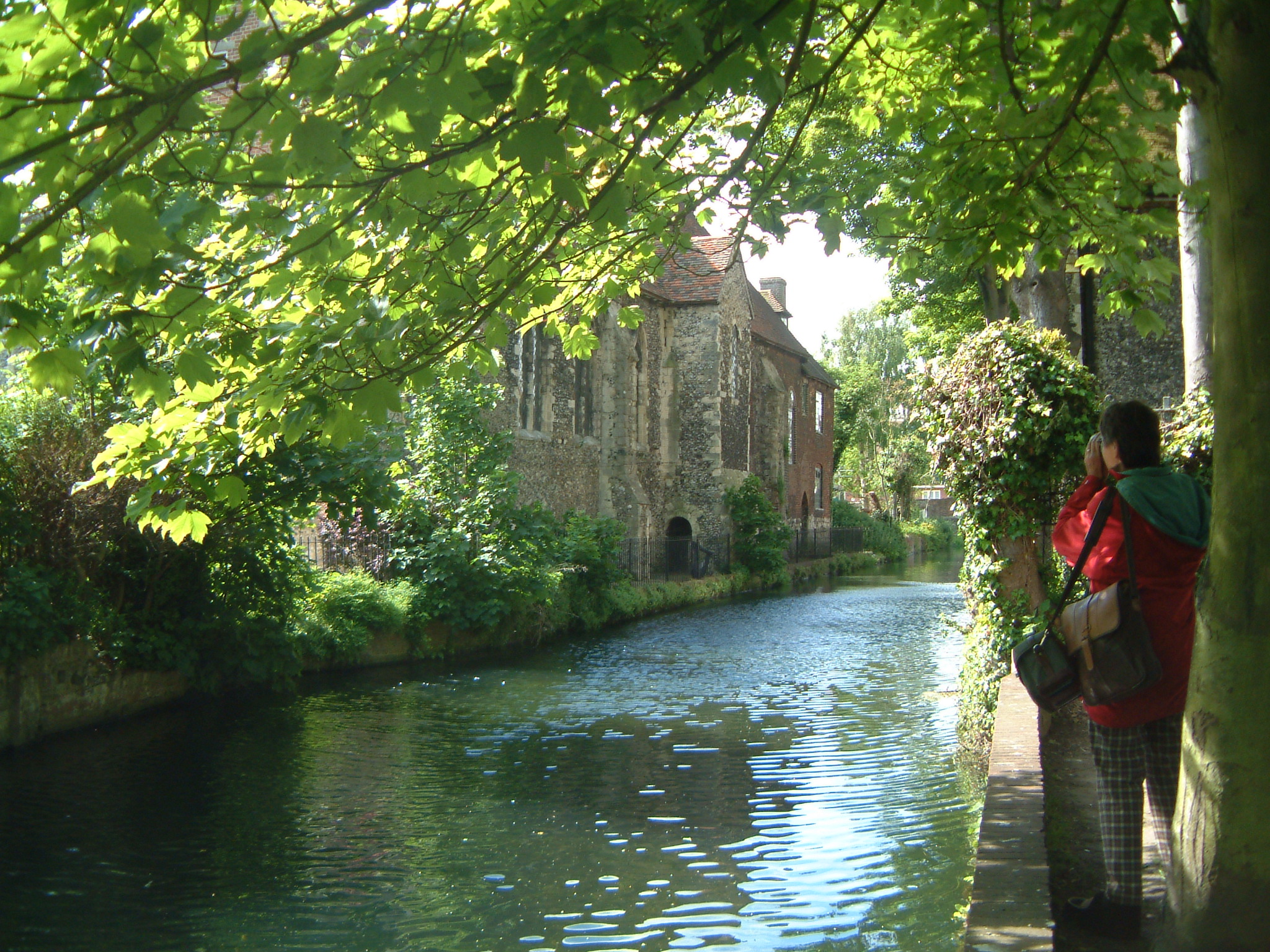 Canterbury - Rectory of the Blackfriars and Stour